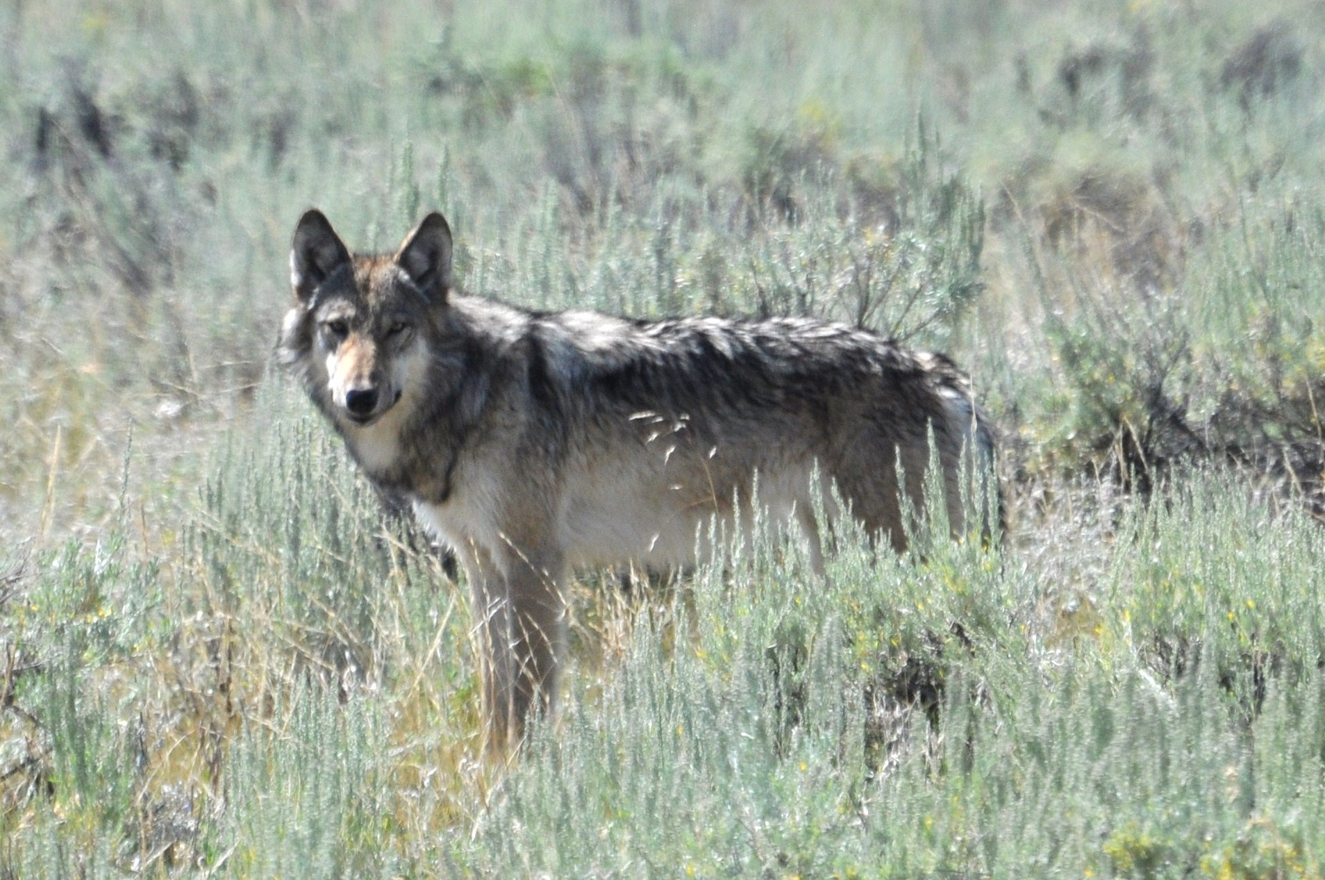 Lamar Valley Wolf, Yellowstone National Park, August 14, 2011